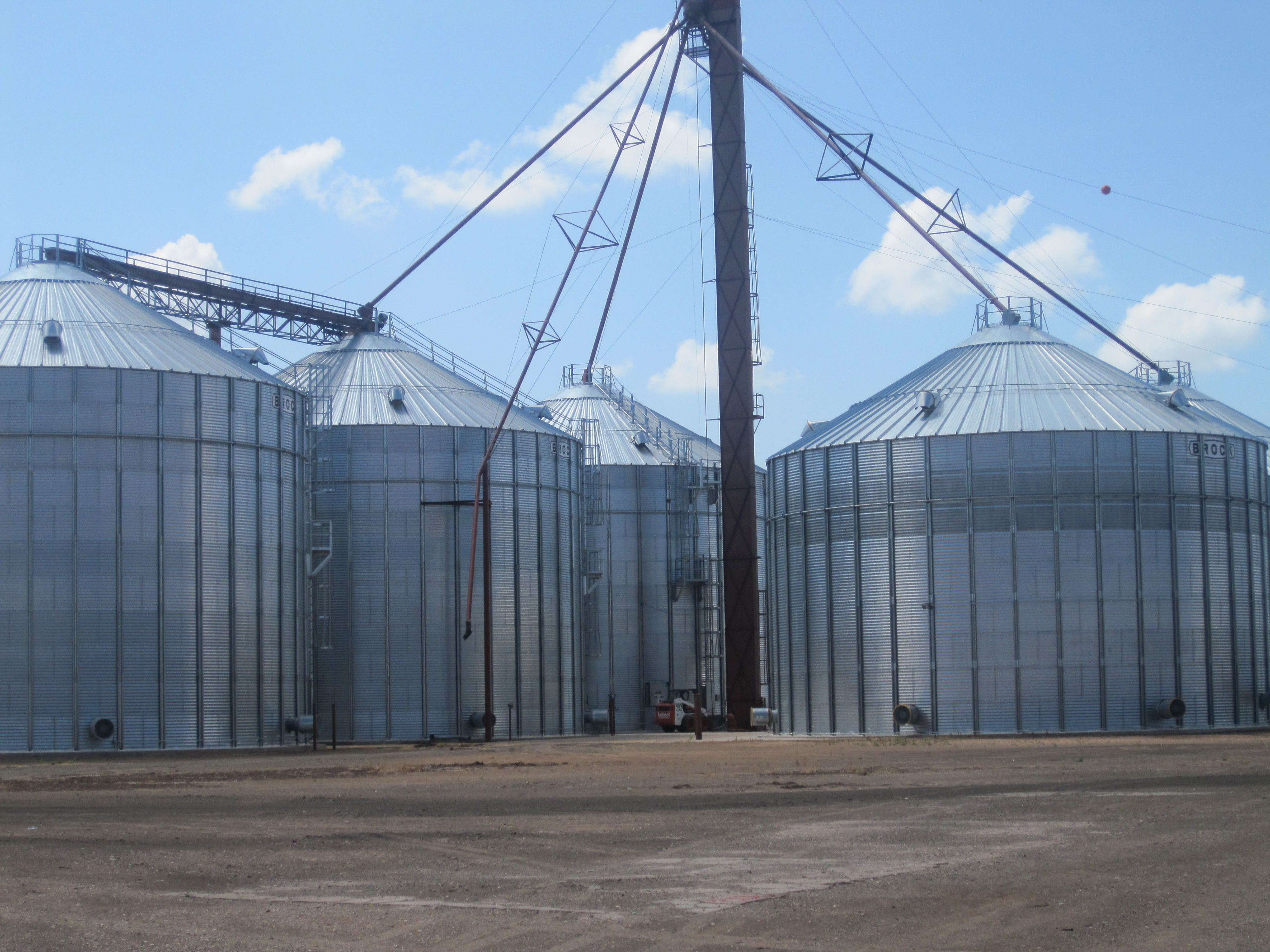 I took photo with Canon camera in Springlake, Lamb County, TX.